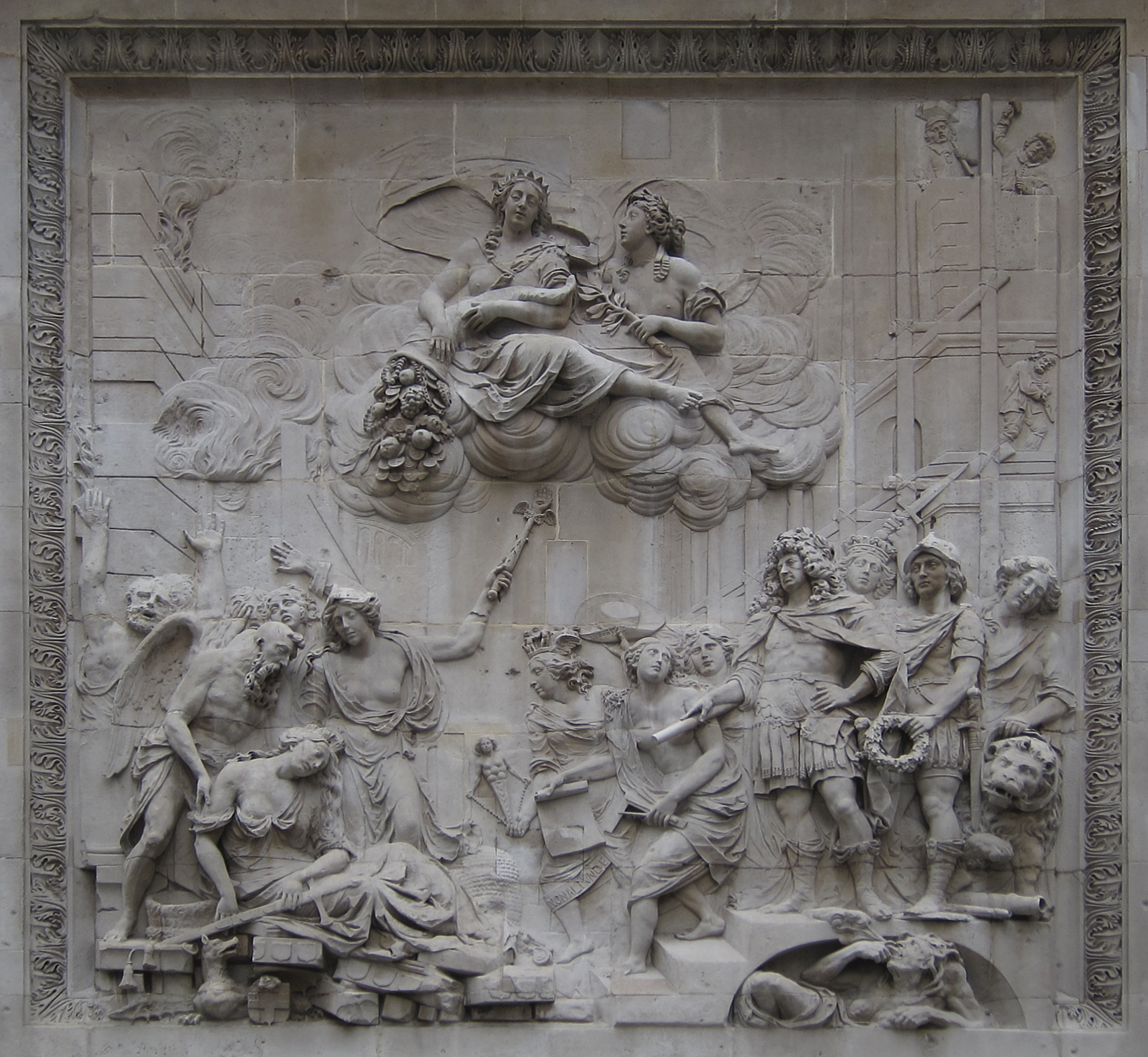 The depiction of the Great Fire of London by Caius Gabriel Cibber on the base of the Monument in London